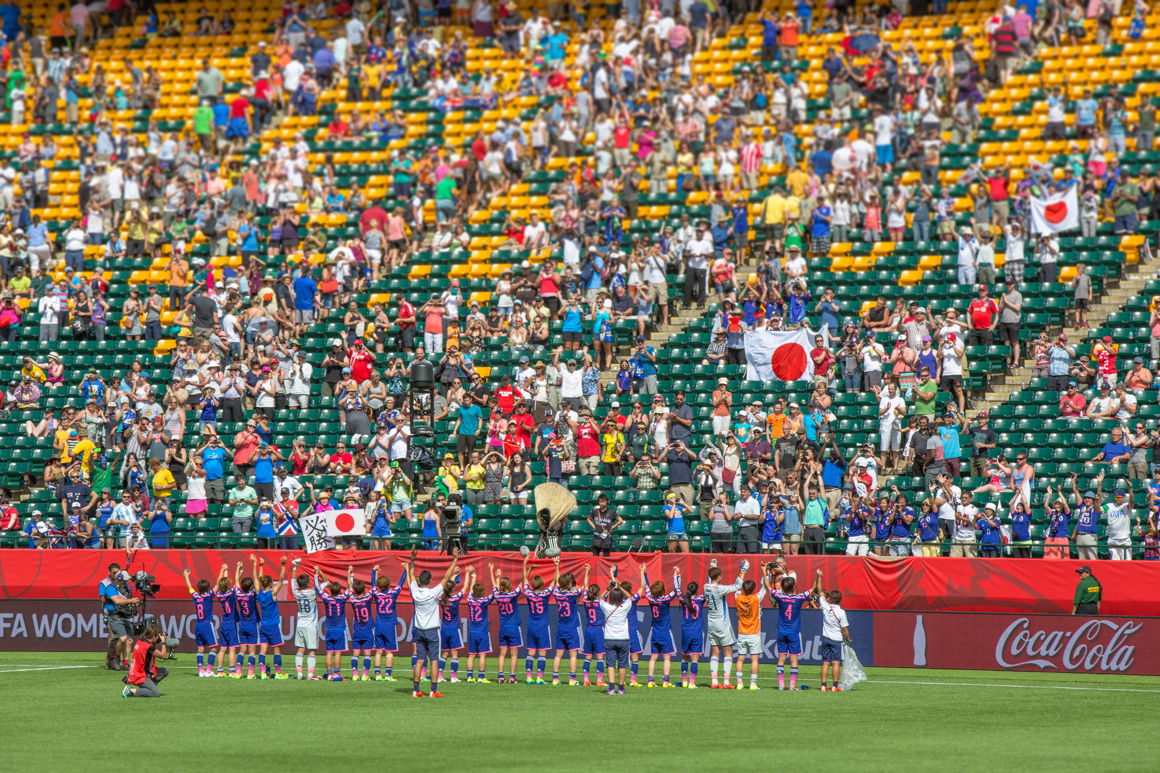 The 2015 FIFA Women's World Cup is the seventh FIFA Women's World Cup, the quadrennial international women's football world championship tournament. The tournament will be held from 6 June to 5 July 2015. Japan vs Australia Match Highlights